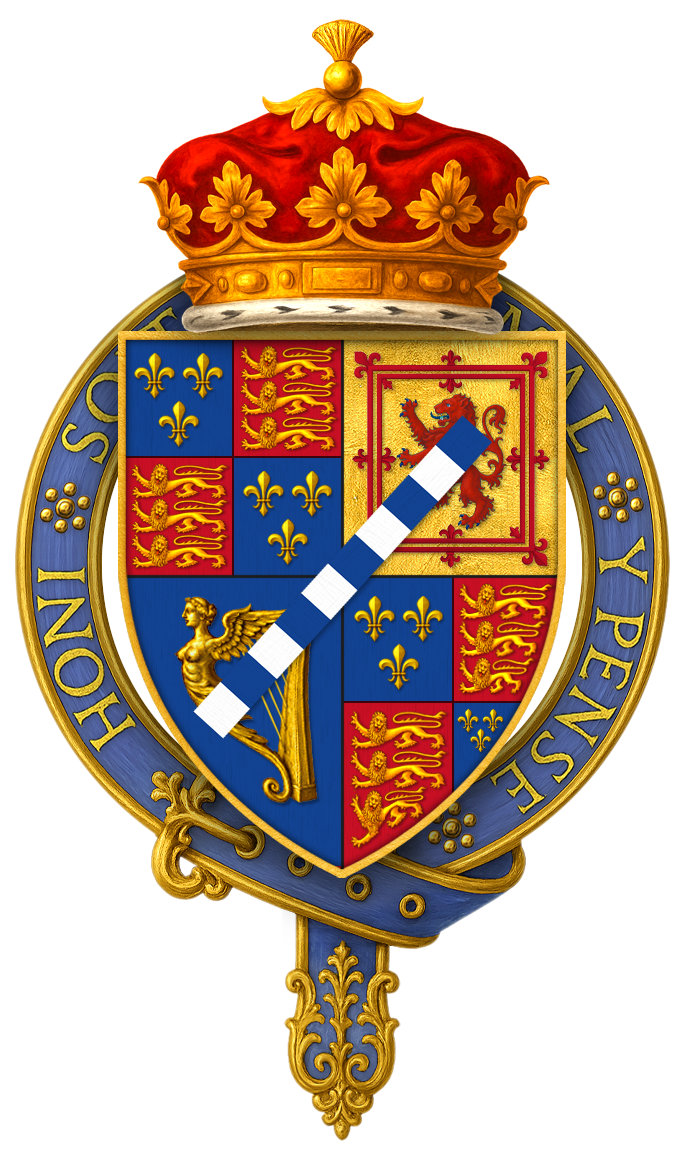 Coat of arms of Henry FitzRoy, 1st Duke of Grafton, KG